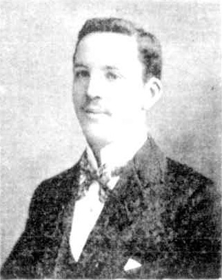 Photograph of Dave Powell featured in Punch Newspaper in 1899